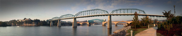 Walnut Street Bridge Panoramic. Taken By me